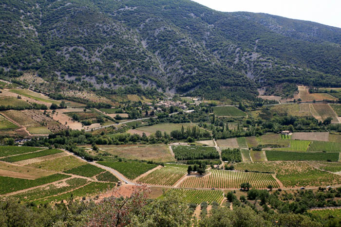 The hamlet of Veaux at Malaucène in Vaucluse, France.